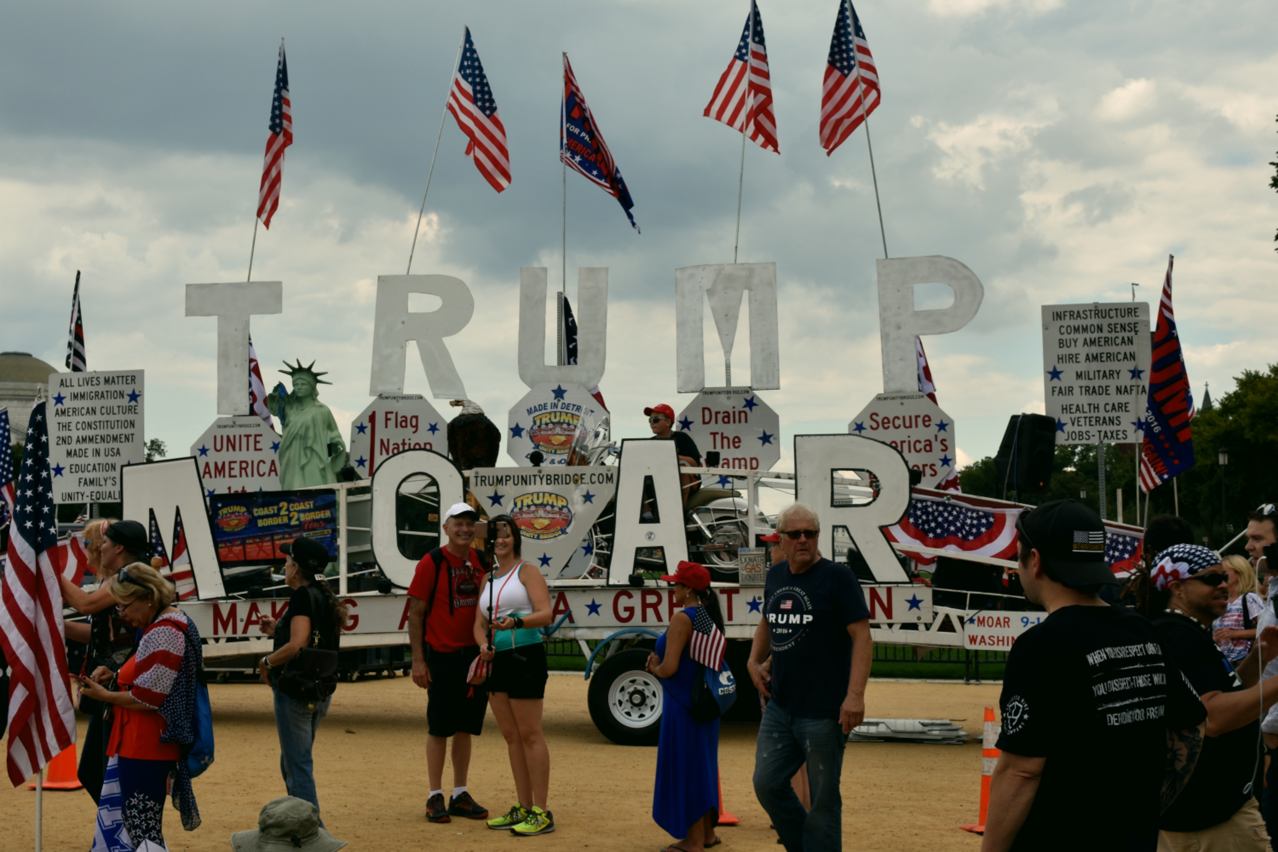 WASHINGTON DC, SEPT 16 2017: The "Mother of All Rallies" event in support of Donald Trump draws a small group to the National Mall.